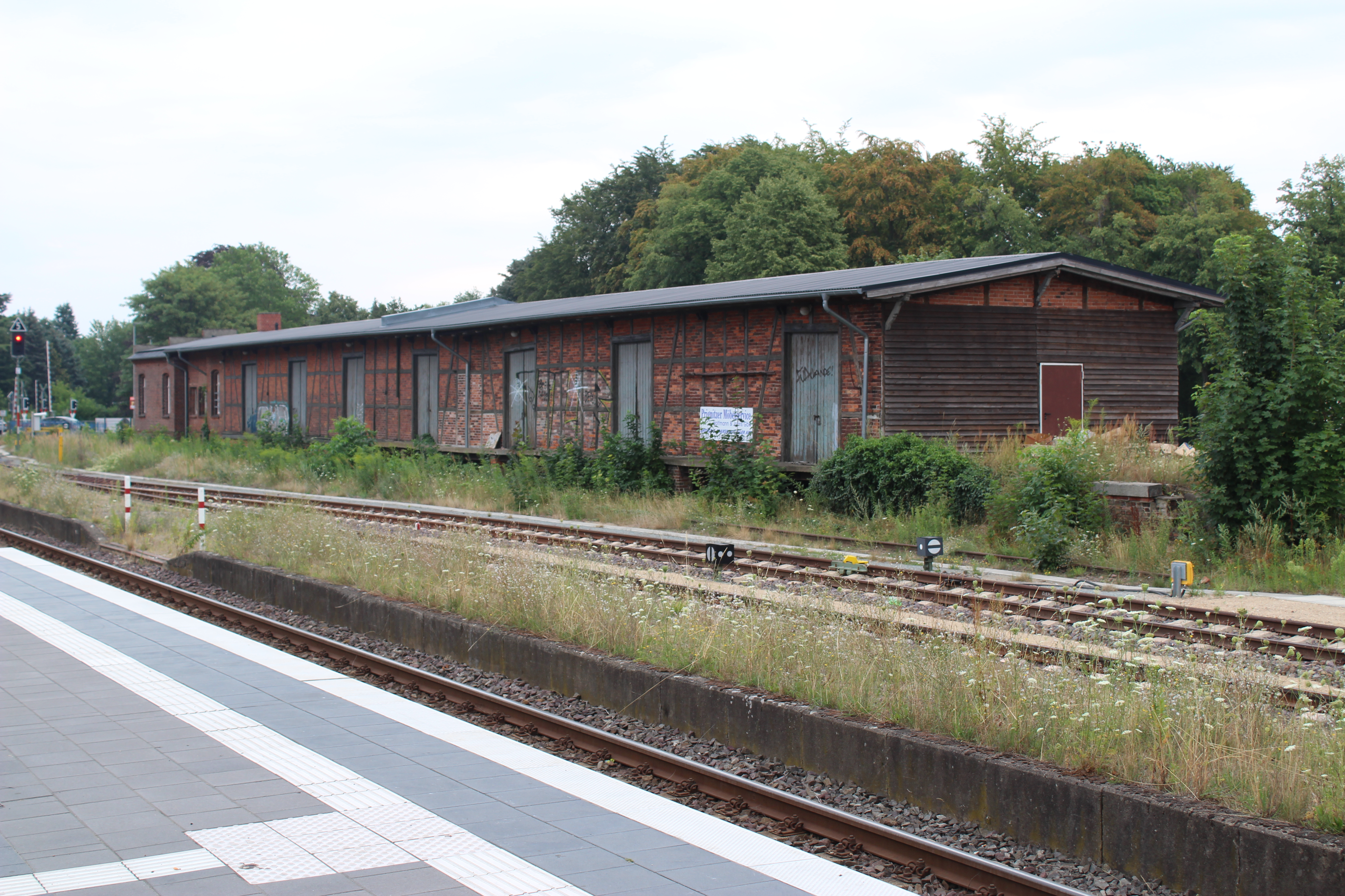 train station Perleberg, goods shed